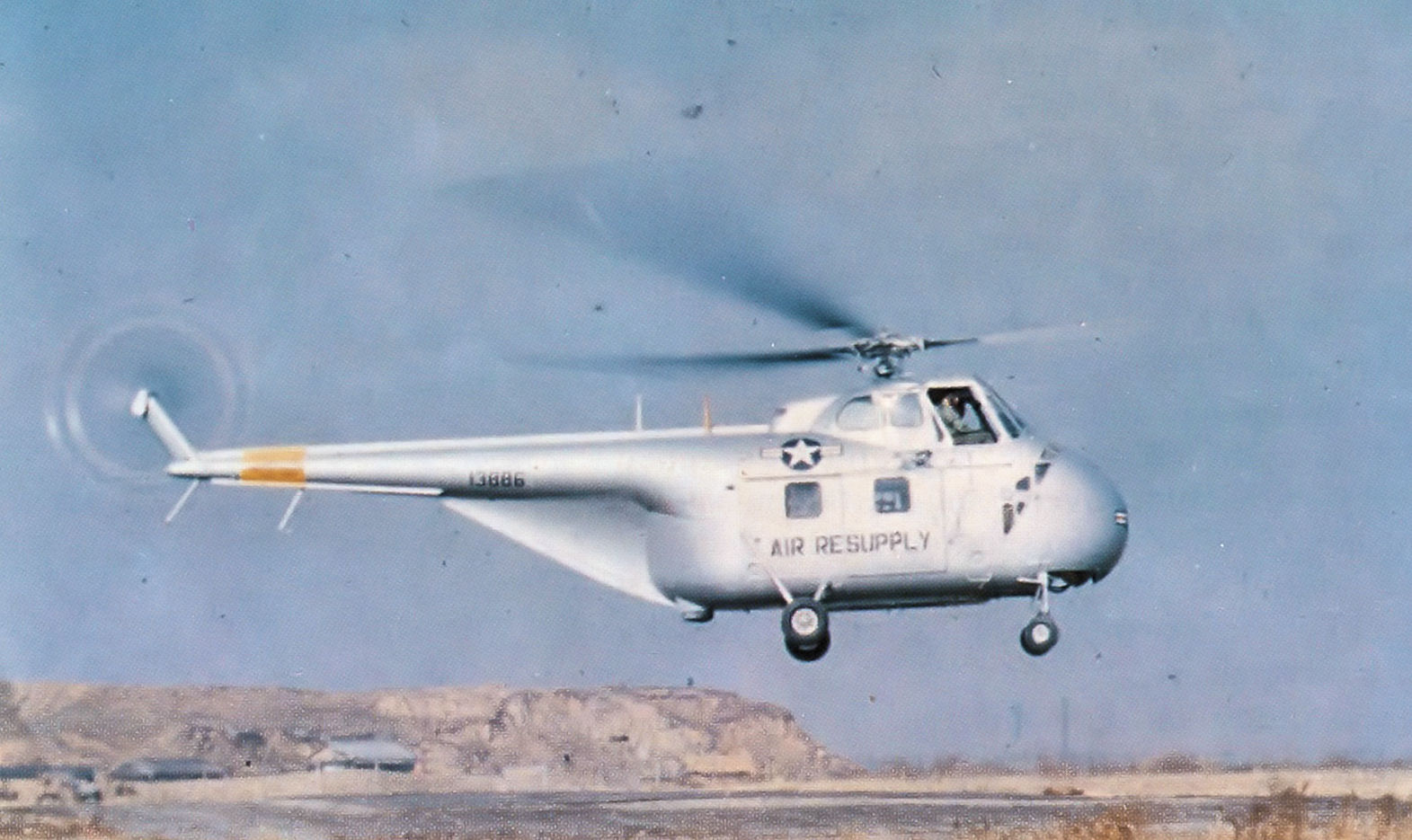 581st Air Resupply And Communications Wing H-19 Helicopter - Korea, 1951